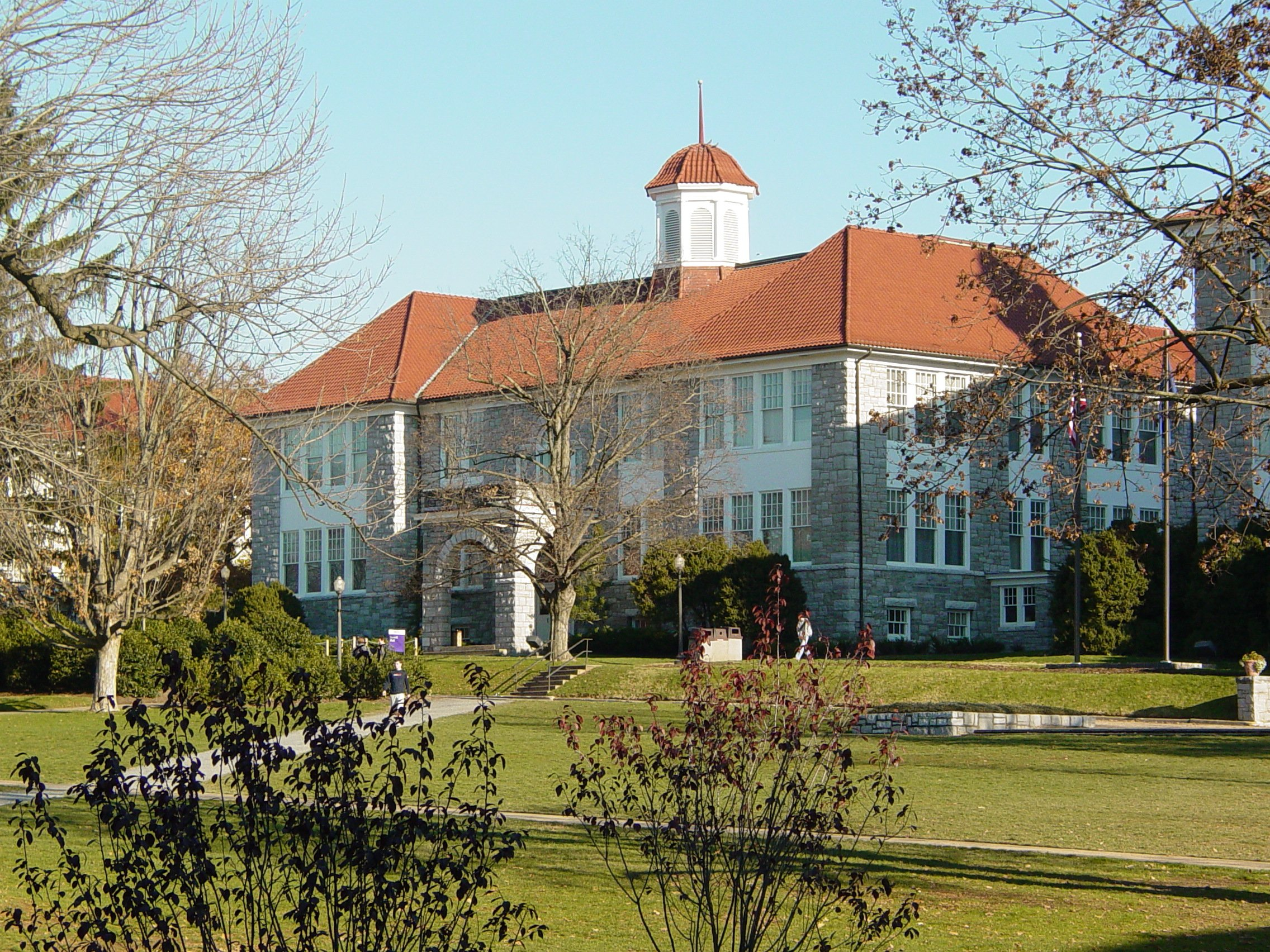 Keezell Hall, a building on the campus of James Madison University. Photo taken by Ben Schumin on November 20, 2002.